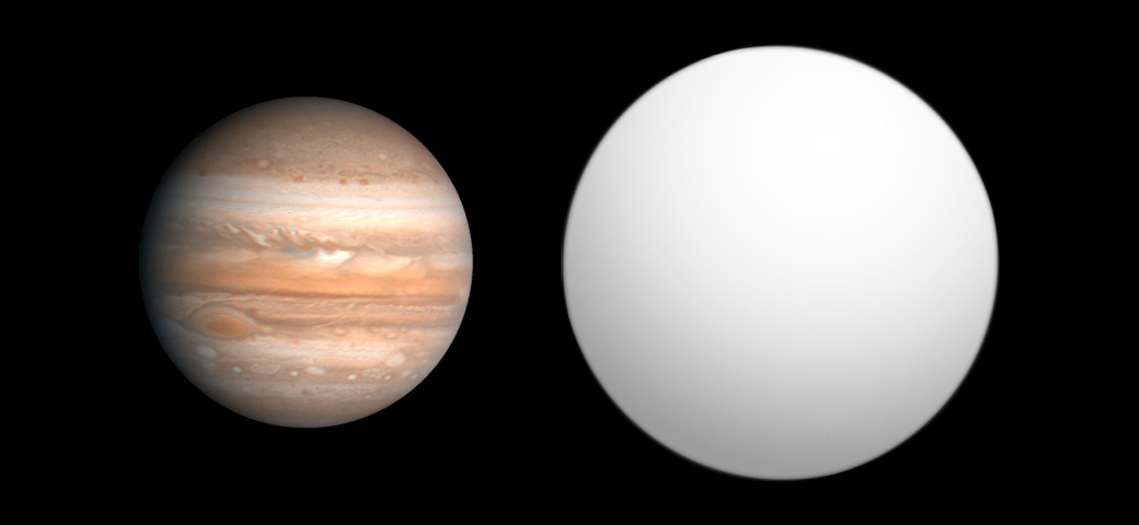 Comparison of best-fit size of the exoplanet WASP-19 b with the Solar System planet Jupiter, as reported in the Extrasolar Planets Encyclopaedia[1] as of 2010-10-03. ↑ Extrasolar Planets Encyclopaedia (2010-09-30). Retrieved on 2010-10-03.